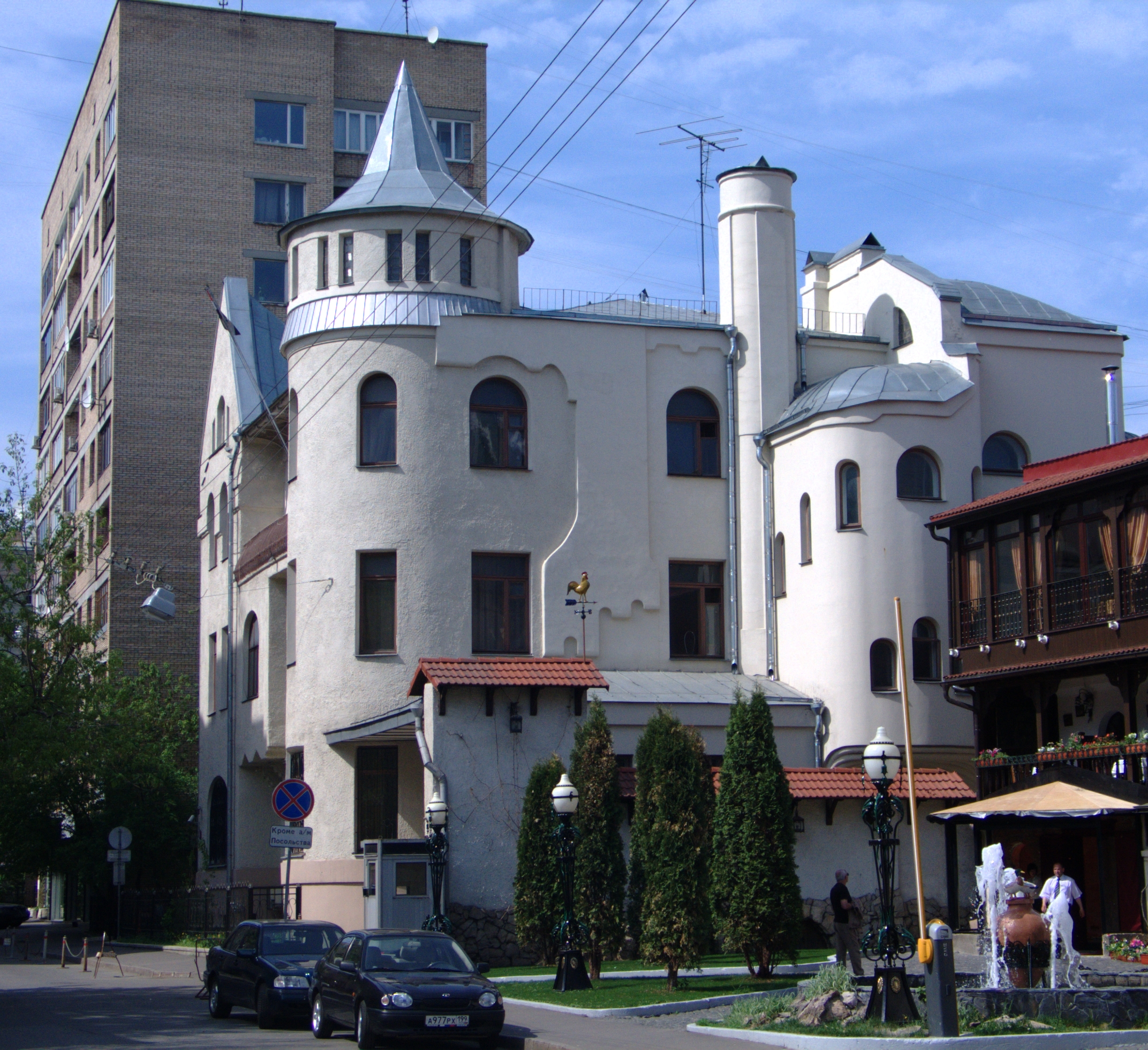 Building of the Embassy of Syria in Moscow (Mansurovskiy side-street 4).